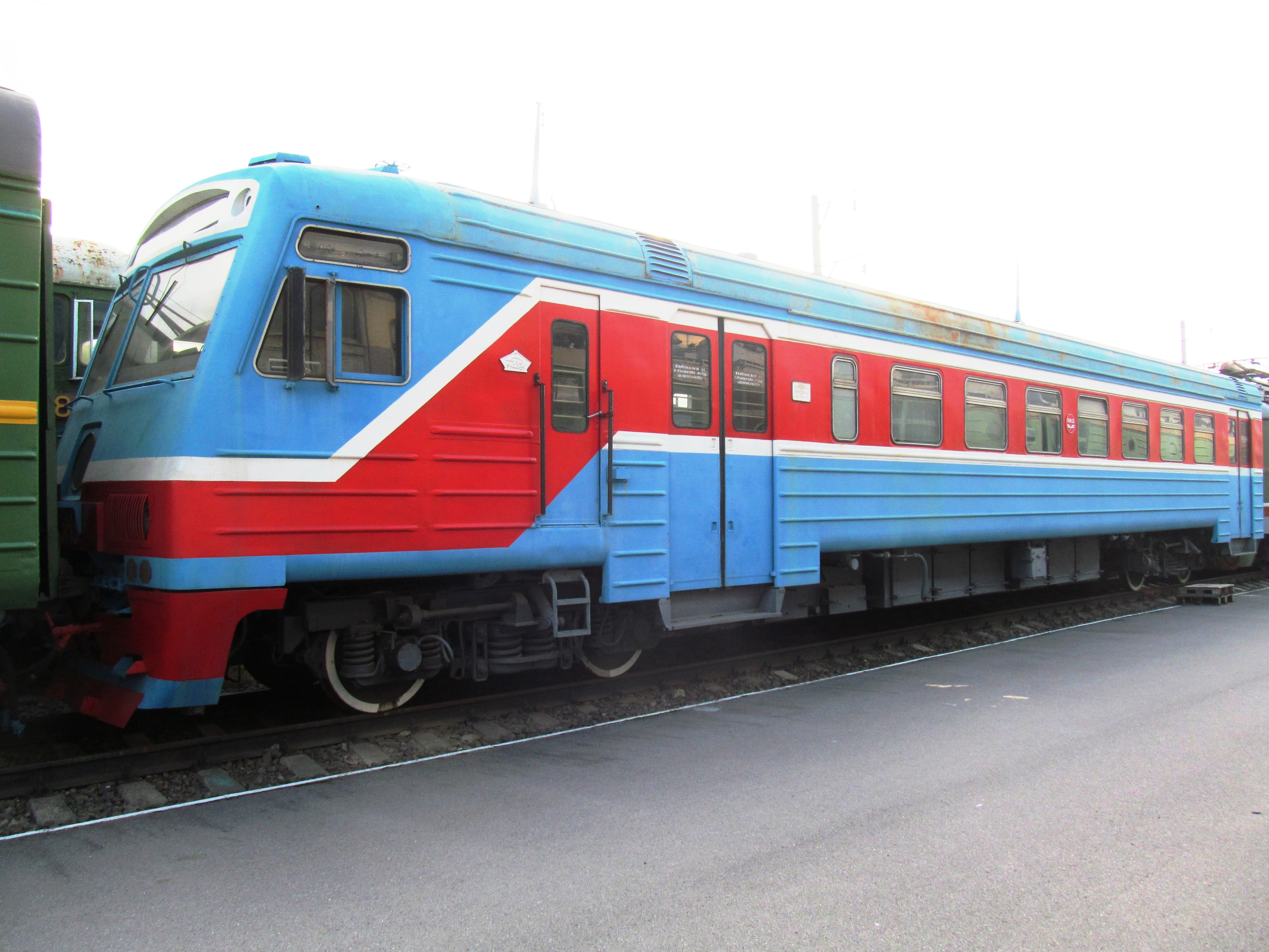 EN3-001 EMU control car (EN3-001.05) in Rostov Museum of railway equipment